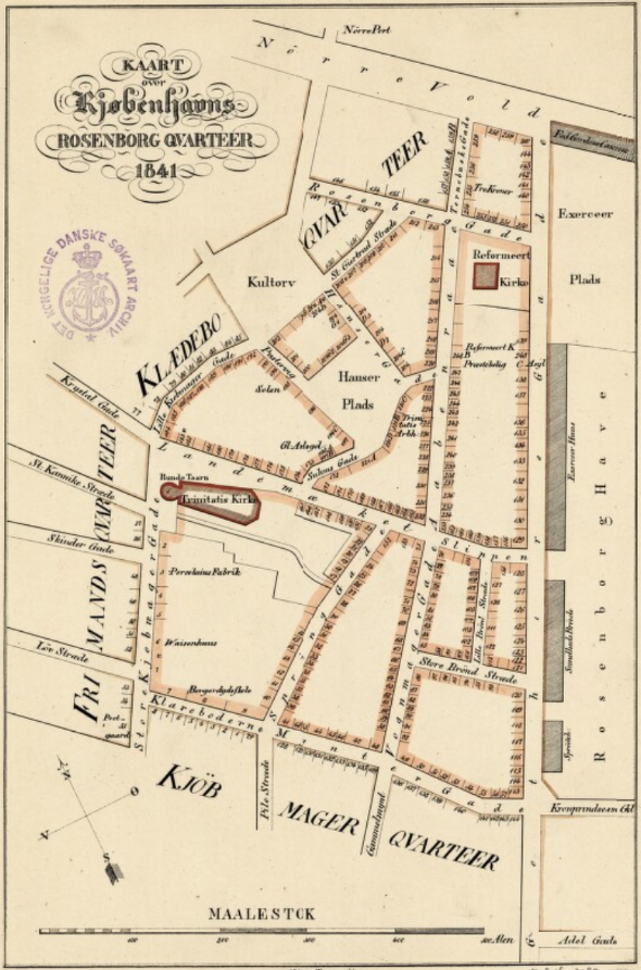 Rosenborg Qvarteer 1841